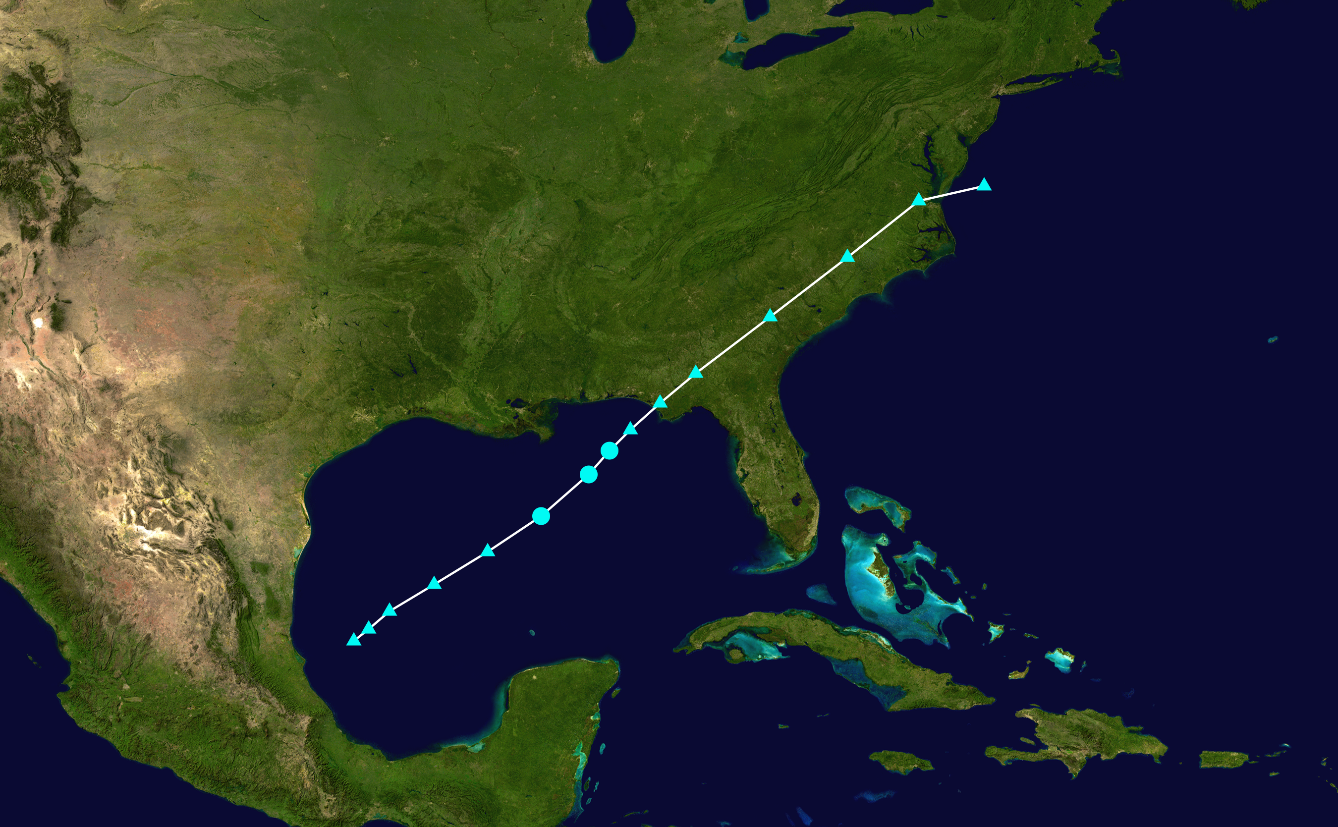 Track map of Tropical Storm Nestor of the 2019 Atlantic hurricane season. The points show the location of the storm at 6-hour intervals. The colour represents the storm's maximum sustained wind speeds as classified in the Saffir–Simpson scale (see below), and the shape of the data points represent the nature of the storm, according to the legend below. Saffir–Simpson scale Tropical depression≤38 mph≤62 km/h Category 3111–129 mph178–208 km/h Tropical storm39–73 mph63–118 km/h Category 4130–156 mph209–251 km/h Category 174–95 mph119–153 km/h Category 5≥157 mph≥252 km/h Category 296–110 mph154–177 km/h Unknown Storm type Tropical cyclone Subtropical cyclone Extratropical cyclone / Remnant low / Tropical disturbance / Monsoon depression